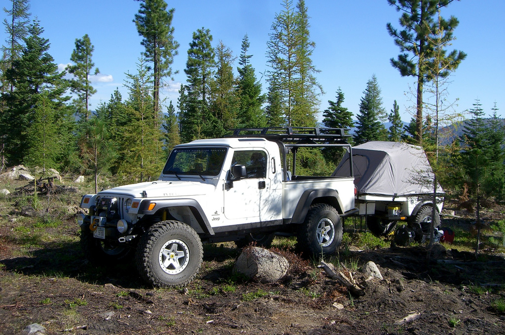 aev brute